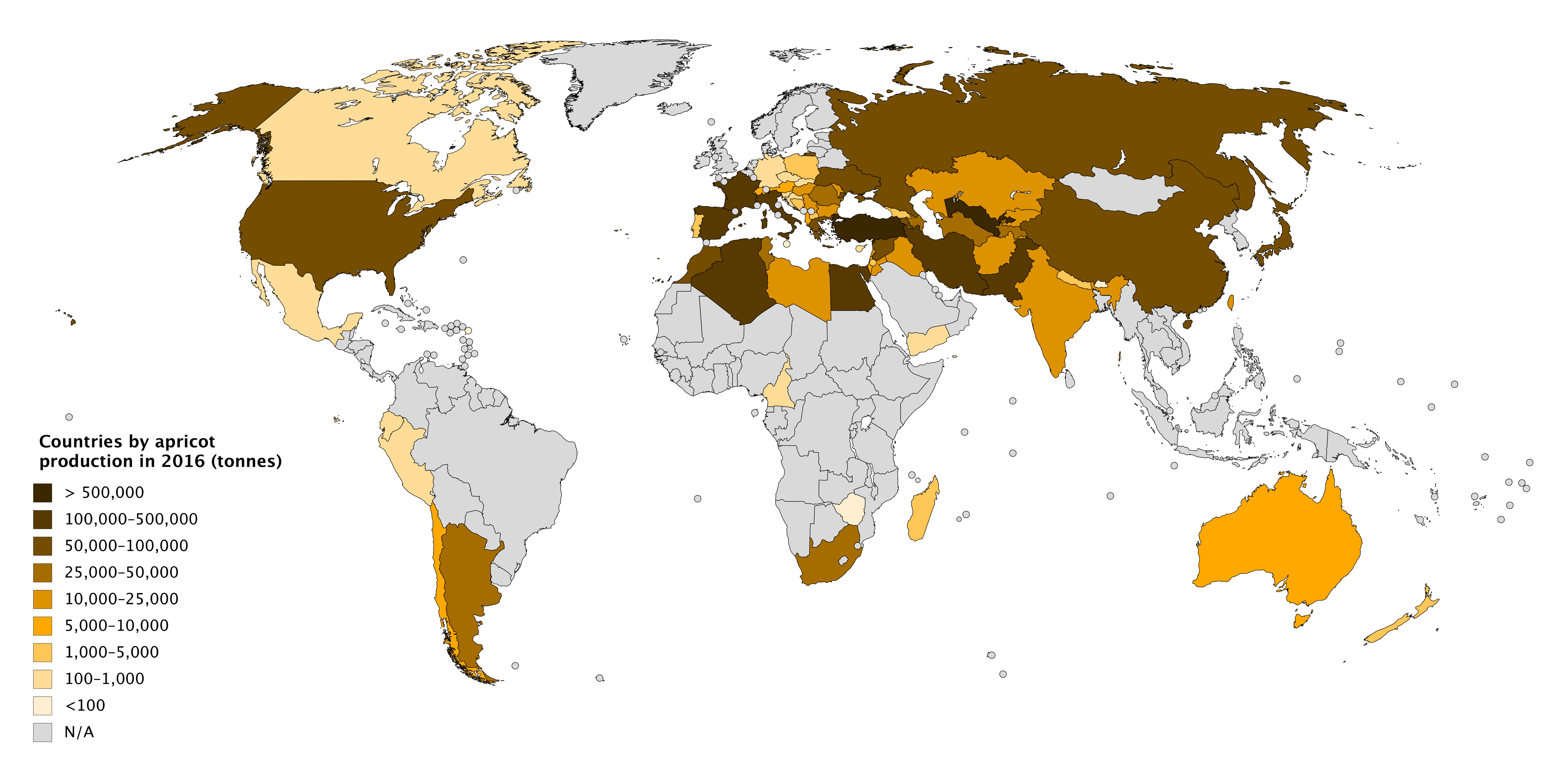 A choropleth map showing countries by apricot production in tonnes, based on 2016 data from the Food and Agriculture Organization Corporate Statistical Database (FAOSTAT).